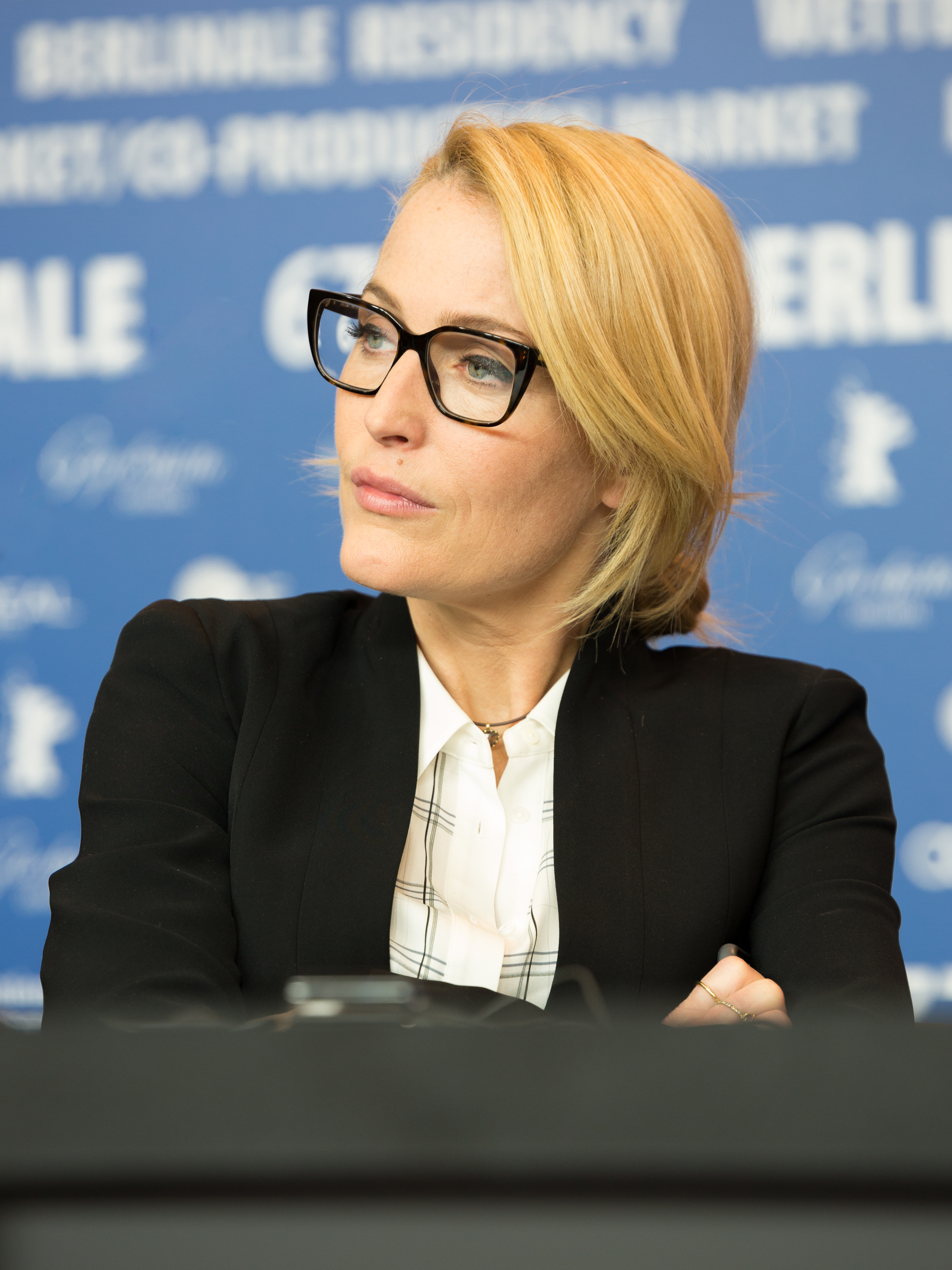 Gillian Anderson presenting the movie Viceroy's House at the Berlinale 2017